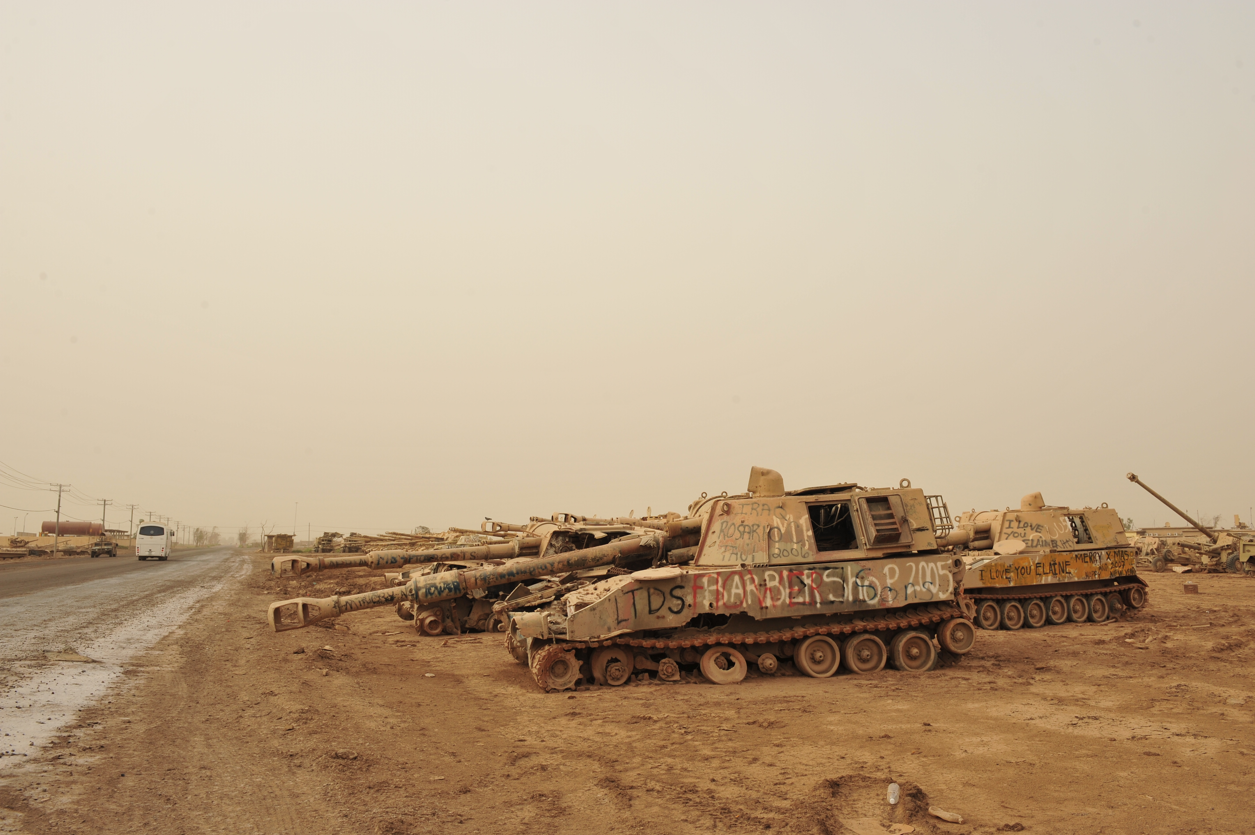 A scrapyard for broken-down howitzers lines a street at Camp Taji, Iraq. Scrapyards are found throughout the camp north of Baghdad.